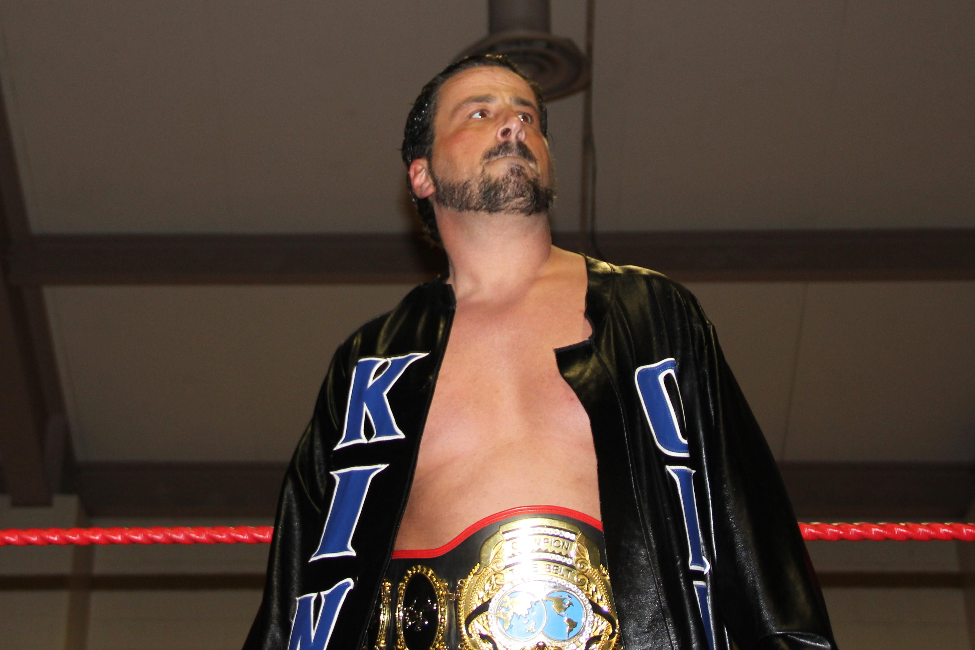 Steve Corino as the reigning champion at a PWF-NE show on February 20, 2012 in Providence, RI.